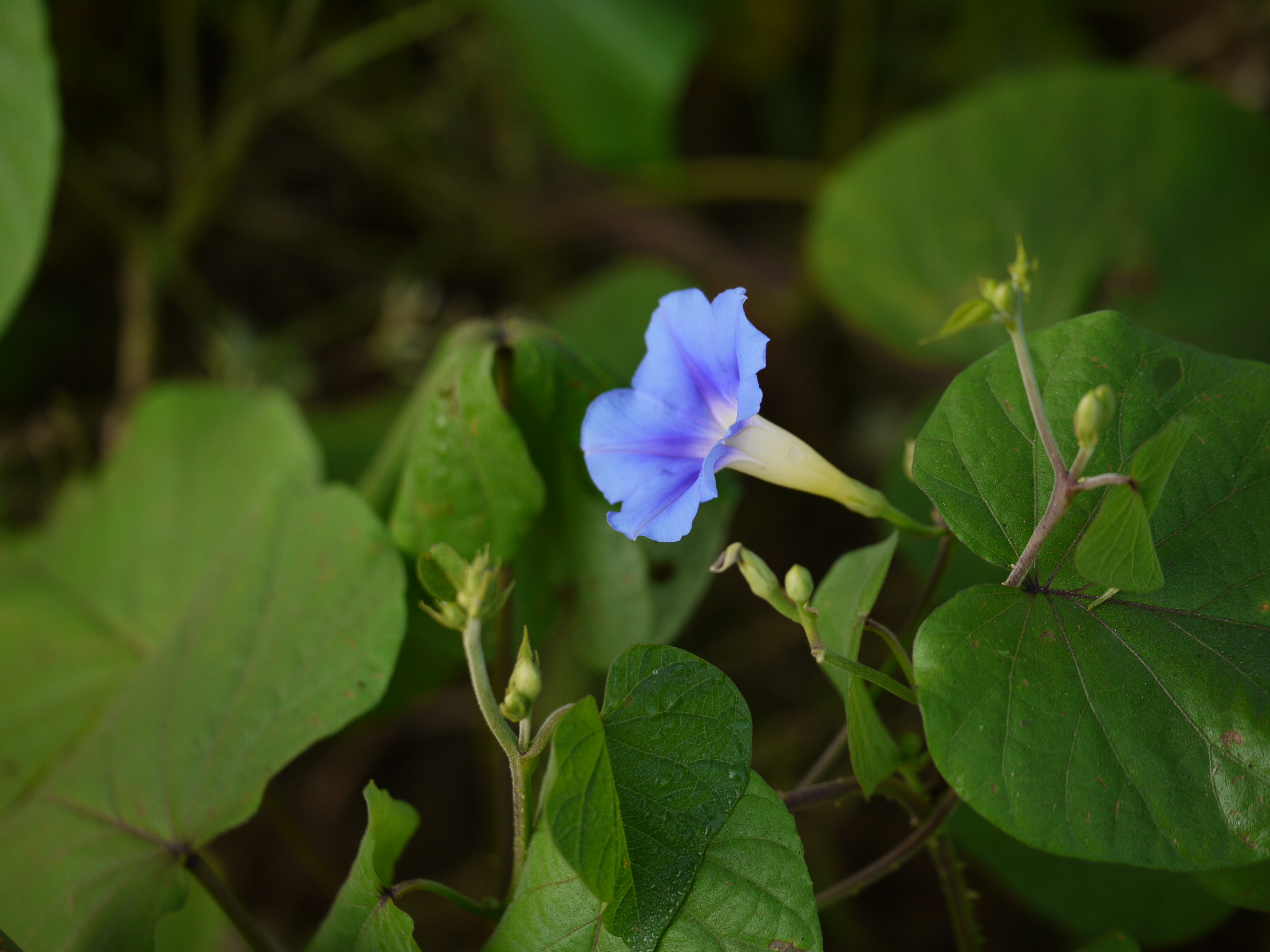 Convolvulaceae (convolvulus, bindweed, or morning glory family) » Ipomoea parasitica (Kunth) G. Don ip-oh-MEE-uh or ip-oh-MAY-uh -- worm-like; referring to coiled flower bud par-uh-SIT-ee-kuh -- parasitic; parasite-like commonly known as: yellow-throated ipomoea Native to: tropical Americas; naturalized elsewhere References: Dave's Garden • NPGS / GRIN